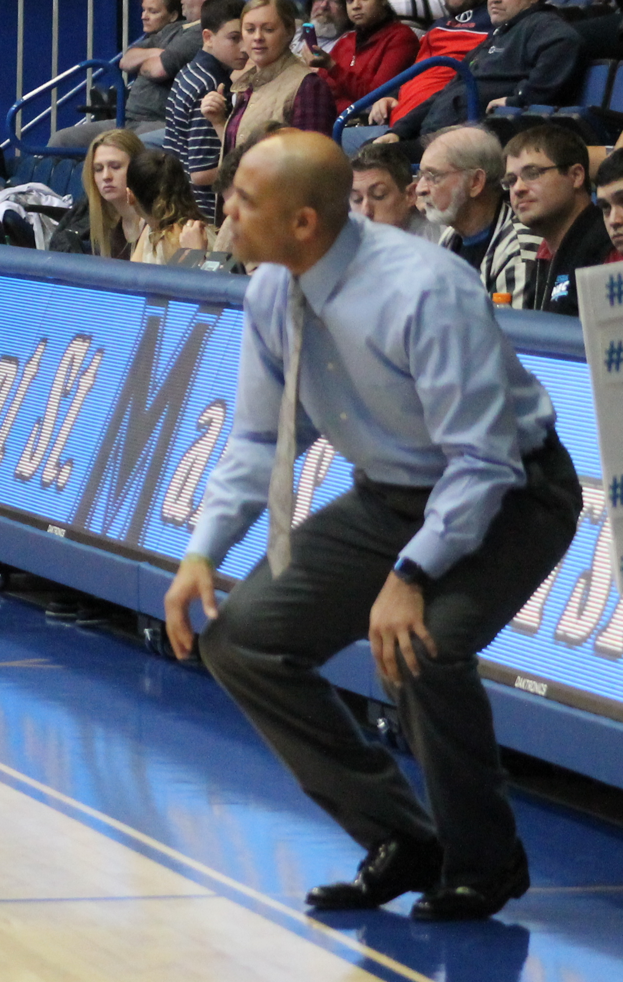 Mount St. Mary's men's basketball coach Jamion Christian (right) argues with a referee during a Northeast Conference game against LIU-Brooklyn on January 2, 2016 at Knott Arena in Emmitsburg, Maryland.